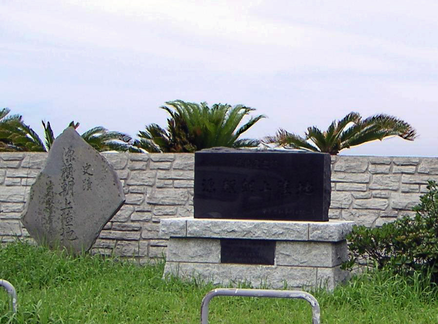 Minamotonoyoritomo Landing point at Kyonan,Chiba